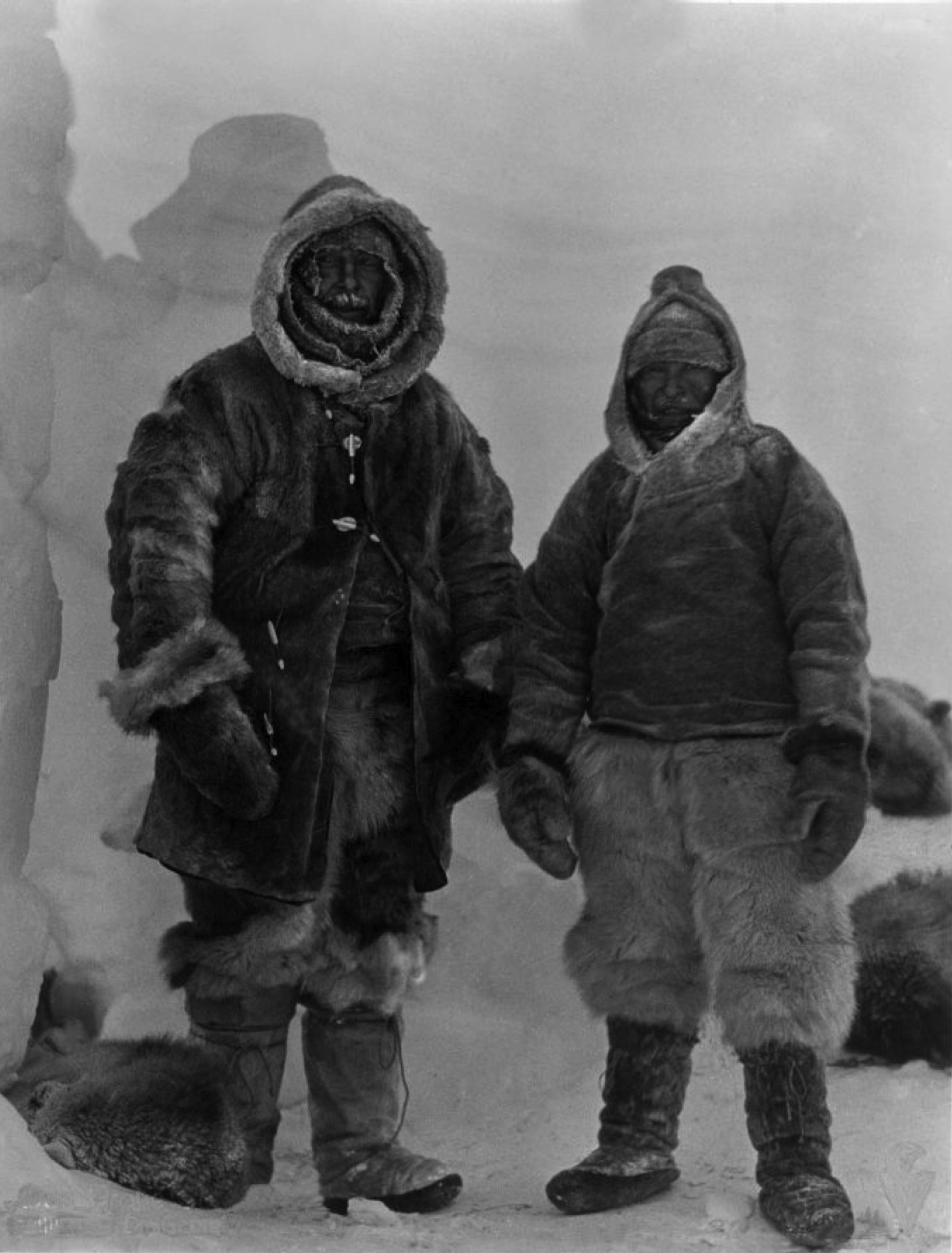 Photograph of the German expedition and overwintering in Greenland - Alfred Wegener (left) and Rasmus Villumsen (inuit) at station Eismitte. Last photo, both died presumably around the 16th November on the way back to the coast.